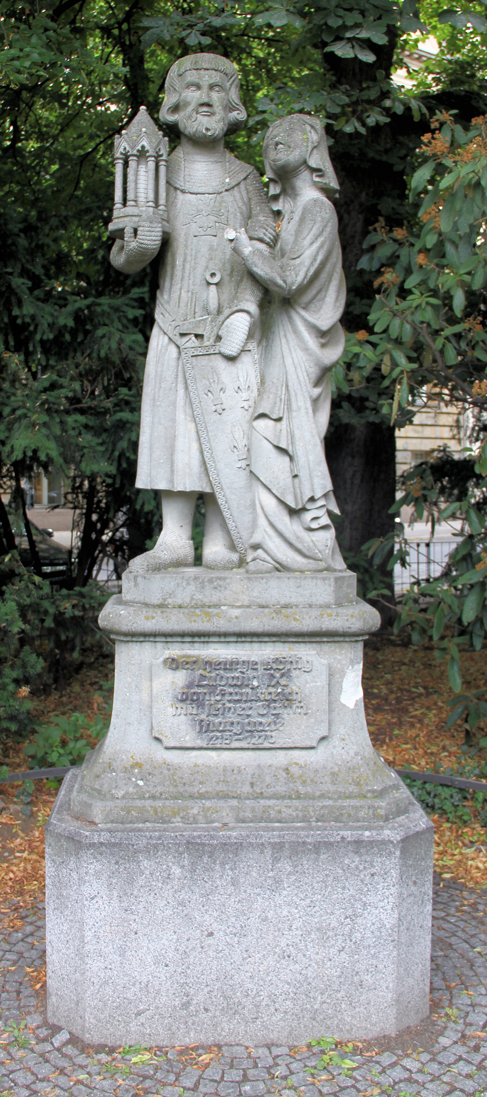 Memorial statue, "Margarete von der Provence and Ludwig IX.", 1984, Ludwigkirchplatz, Berlin-Wilmersdorf, Germany